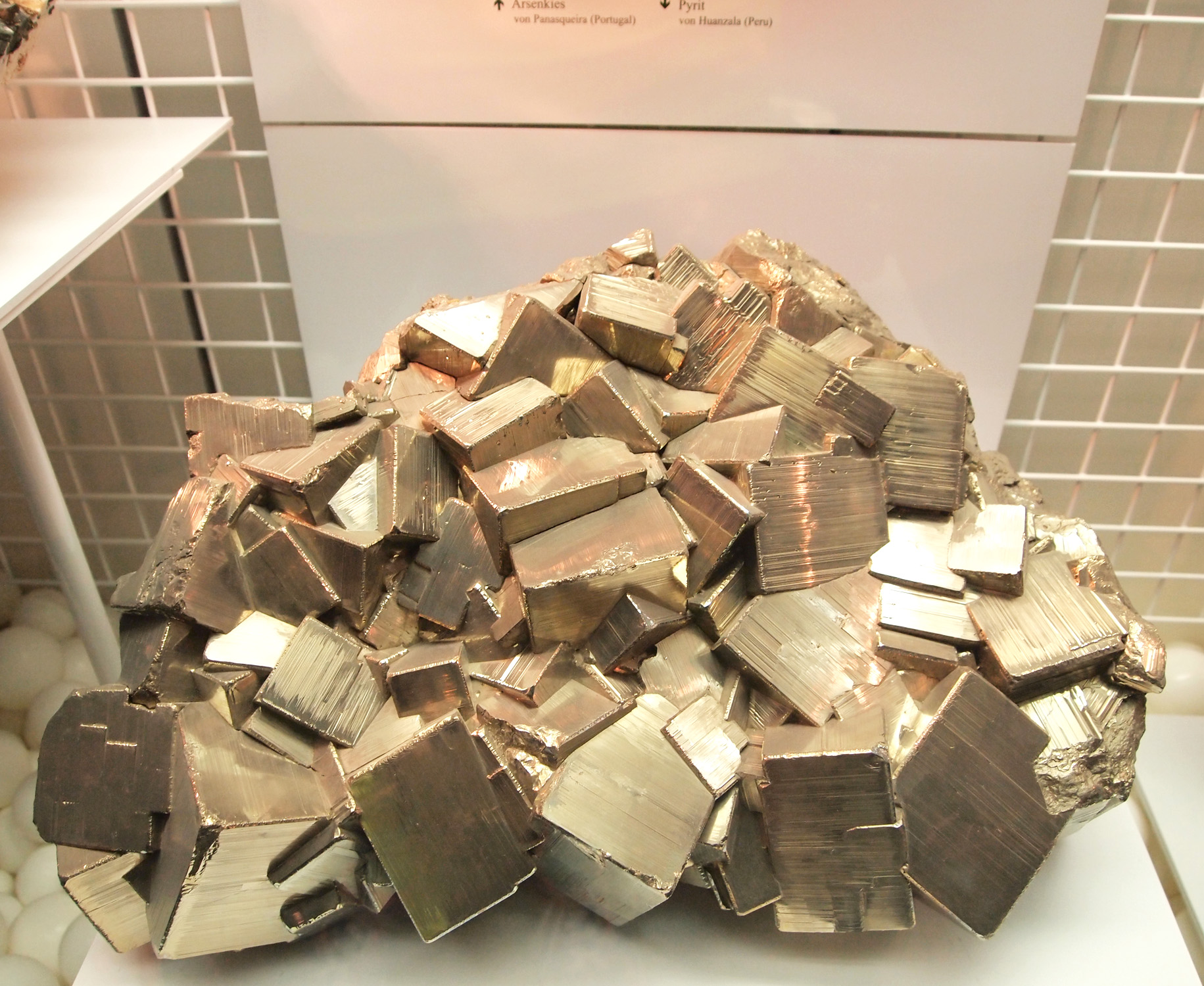 Pyrite in Museum Mensch und Natur. This photograph was taken with an Olympus E-PL1